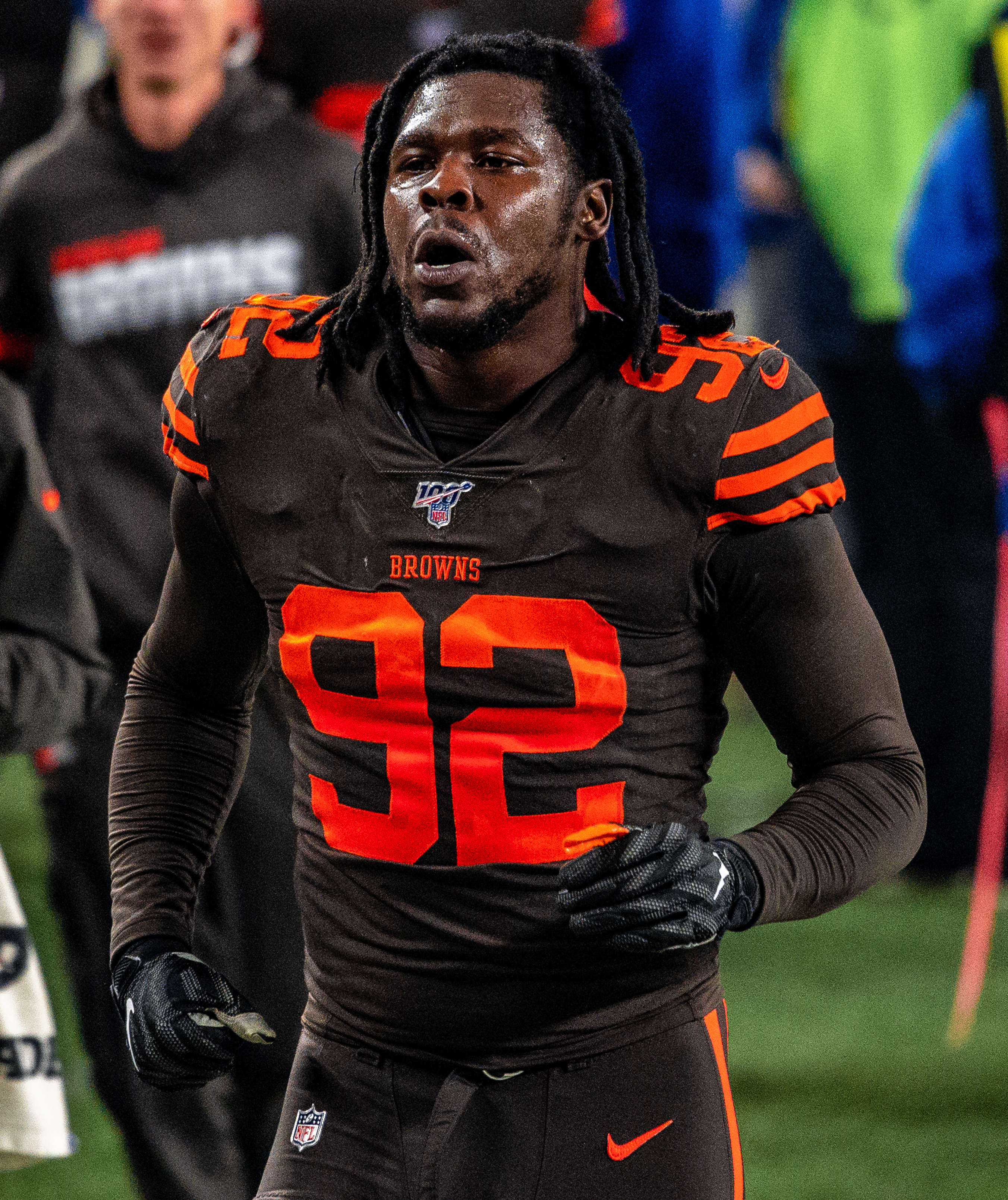 Chad Thomas of the Cleveland Browns during a November 2019 game in Ohio.